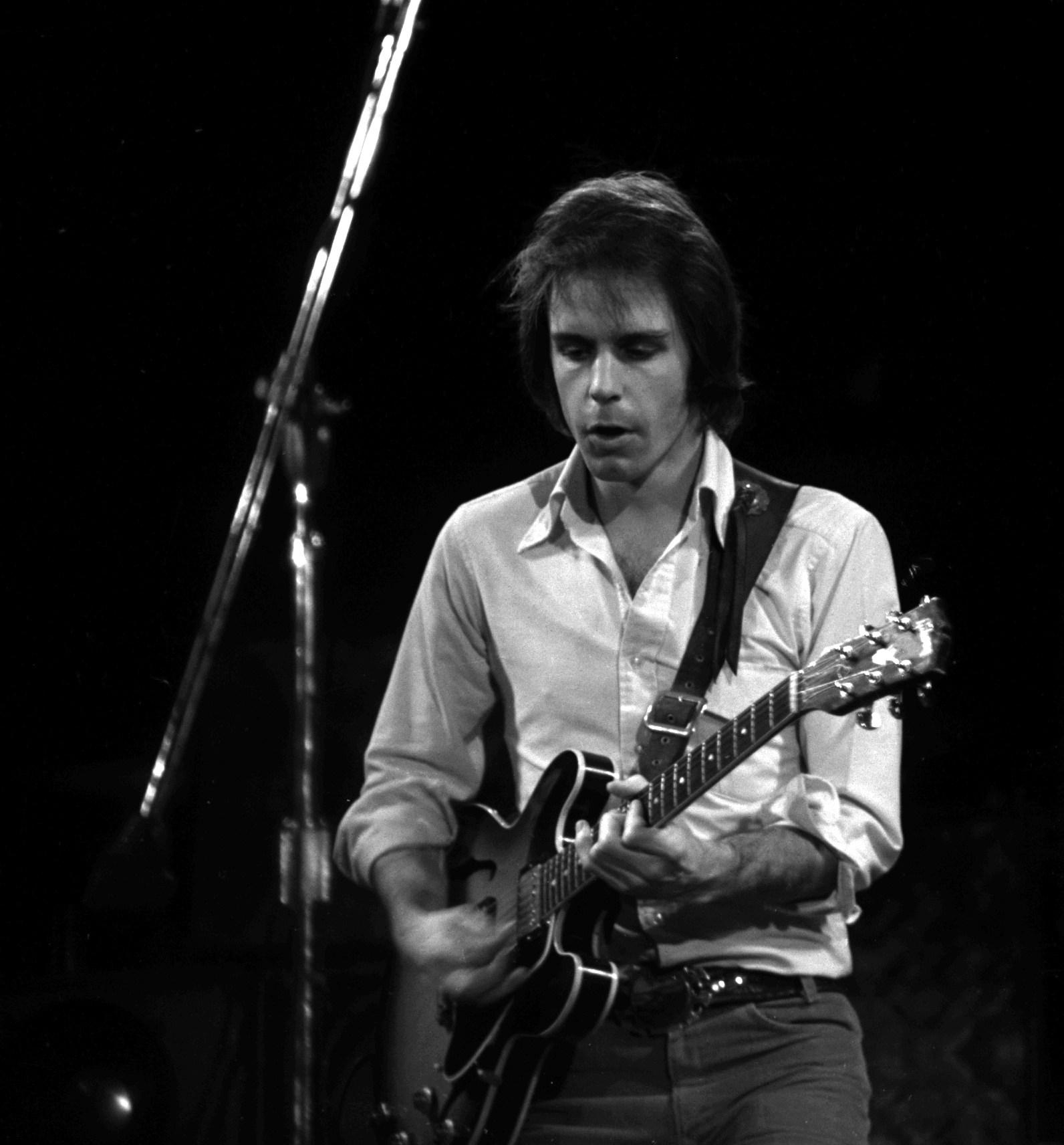 Bob Weir w/ Kingfish 1975 Probably at the Keystone Berkeley.